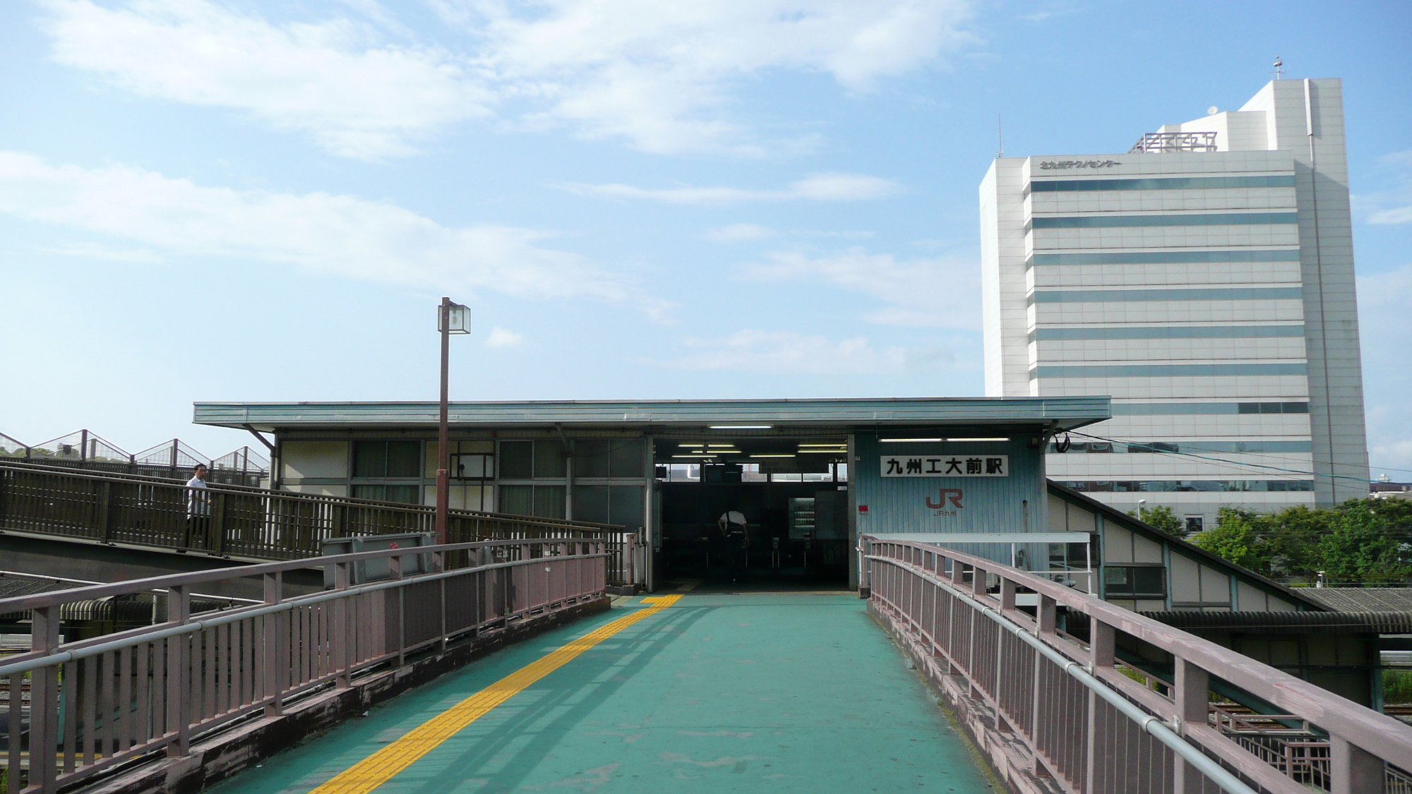 Kyushukodaimae Station, Kagoshima Main Line.